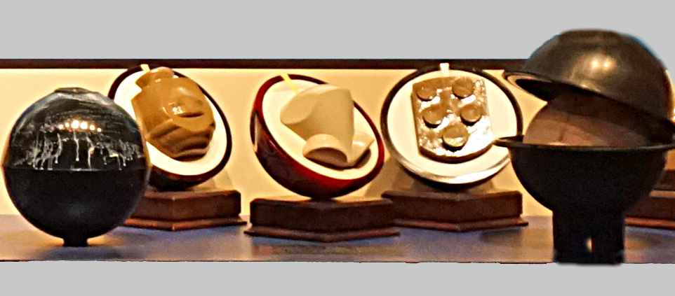 Bowling ball cores (weight blocks) in the International Bowling Museum Cropped version of the following image: International Bowling Museum and Hall of Fame April 2019 30 (Science of Bowling)